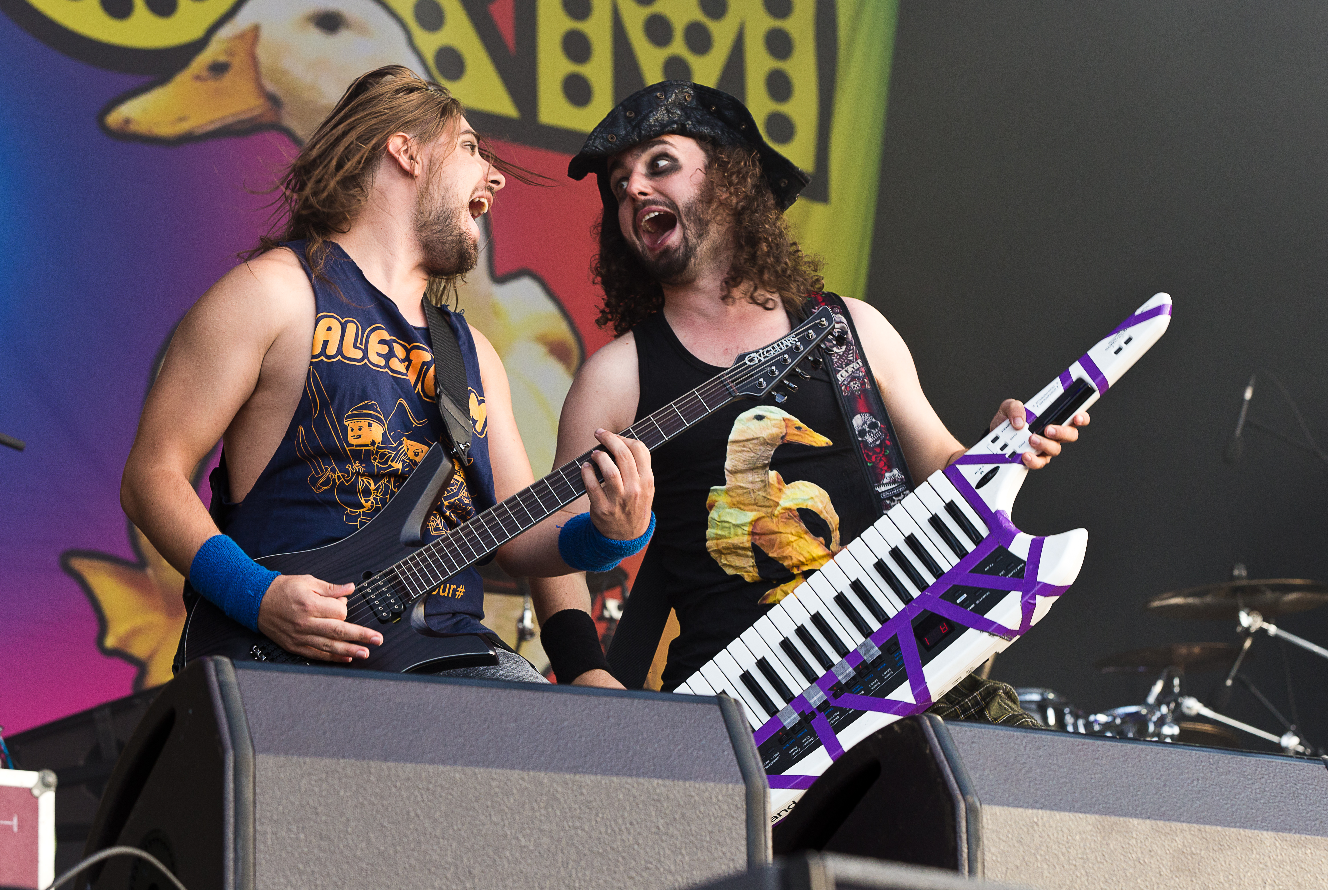 The Scottish power metal band Alestorm at the Rockharz Open Air 2015 in Ballenstedt/Germany.